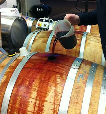 Cropped image of File:Topping barrels.jpg (also own work) but Derivative Rx doesn't seem to be working. Description from that page "Adding wine to a wine barrel to "top it up" by removing any headspace/ullage that may have accumulated from the evaporation of wine and water."